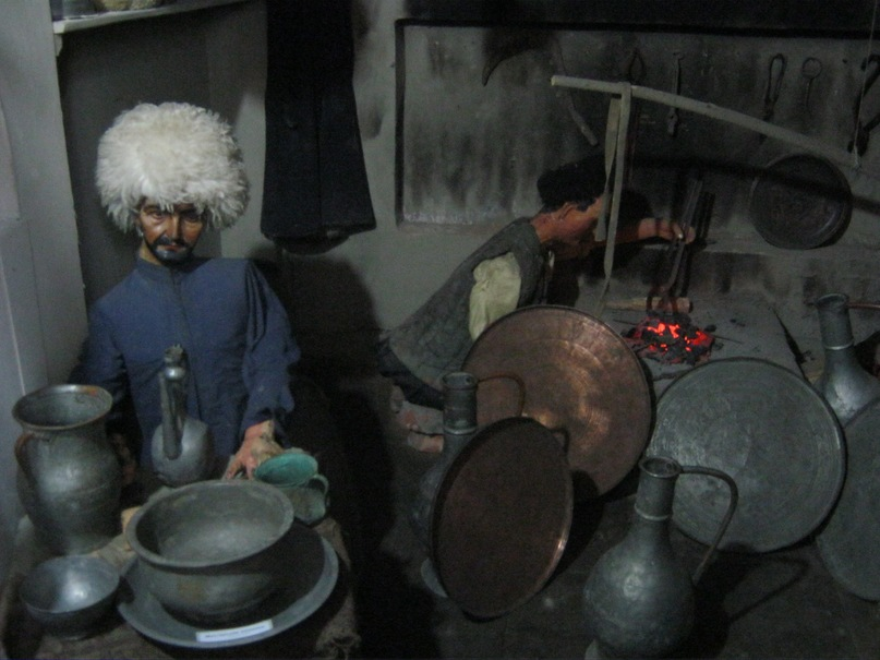 Exposure "Lifestyle of the highlanders" in the Museum of Local history, culture and geography in Akhty, Dagestan.jpg